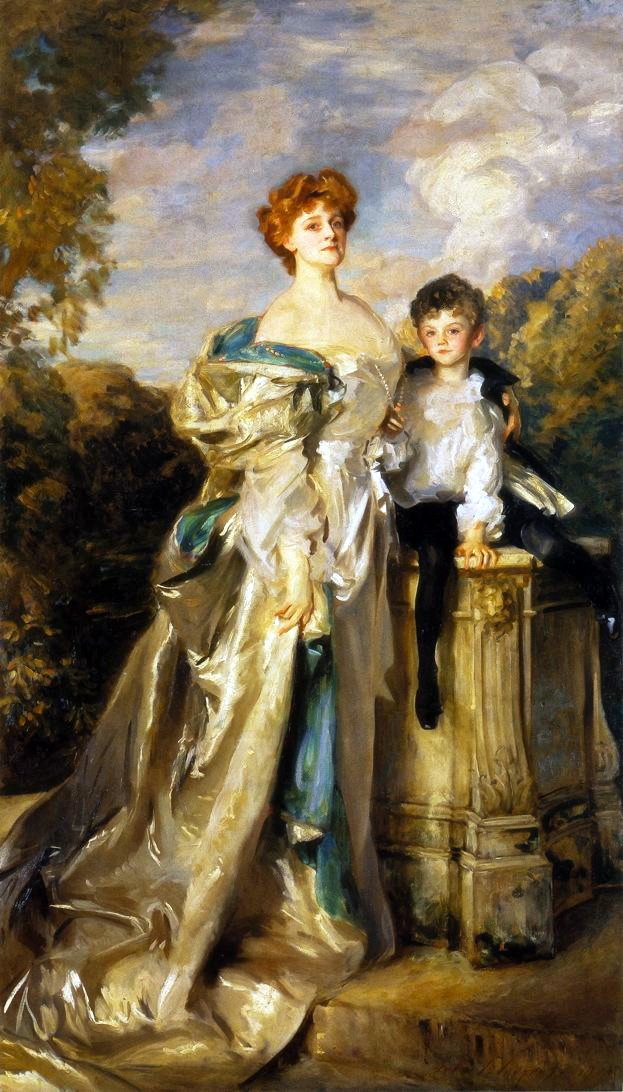 A 1905 oil painting by John Singer Sargent of Frances Evelyn Maynard, "Daisy Greville", Countess of Warwick, (1861-1938) and her son Maynard Greville (1898-1960) fathered by Joseph Laycock, she wife to Francis Greville, Lord Brooke. Daisy Greville, sole beneficiary of the Maynard fortune, and of Easton Lodge, Little Easton, Essex, was an English courtesan and socialite, later turned champagne socialist.